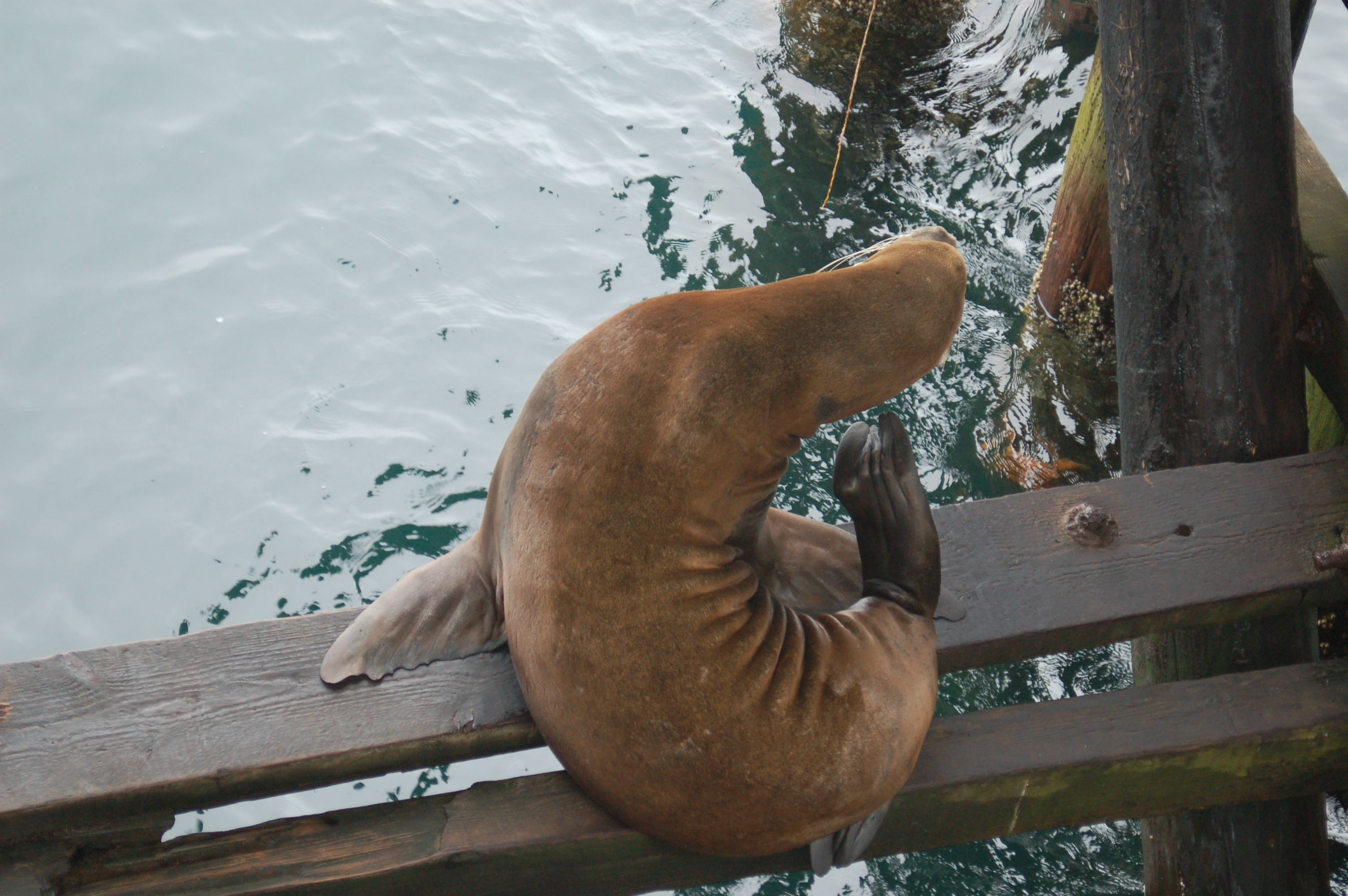 Santa Cruz Municipal Wharf. Sea Lion preening on beam, under the wharf.